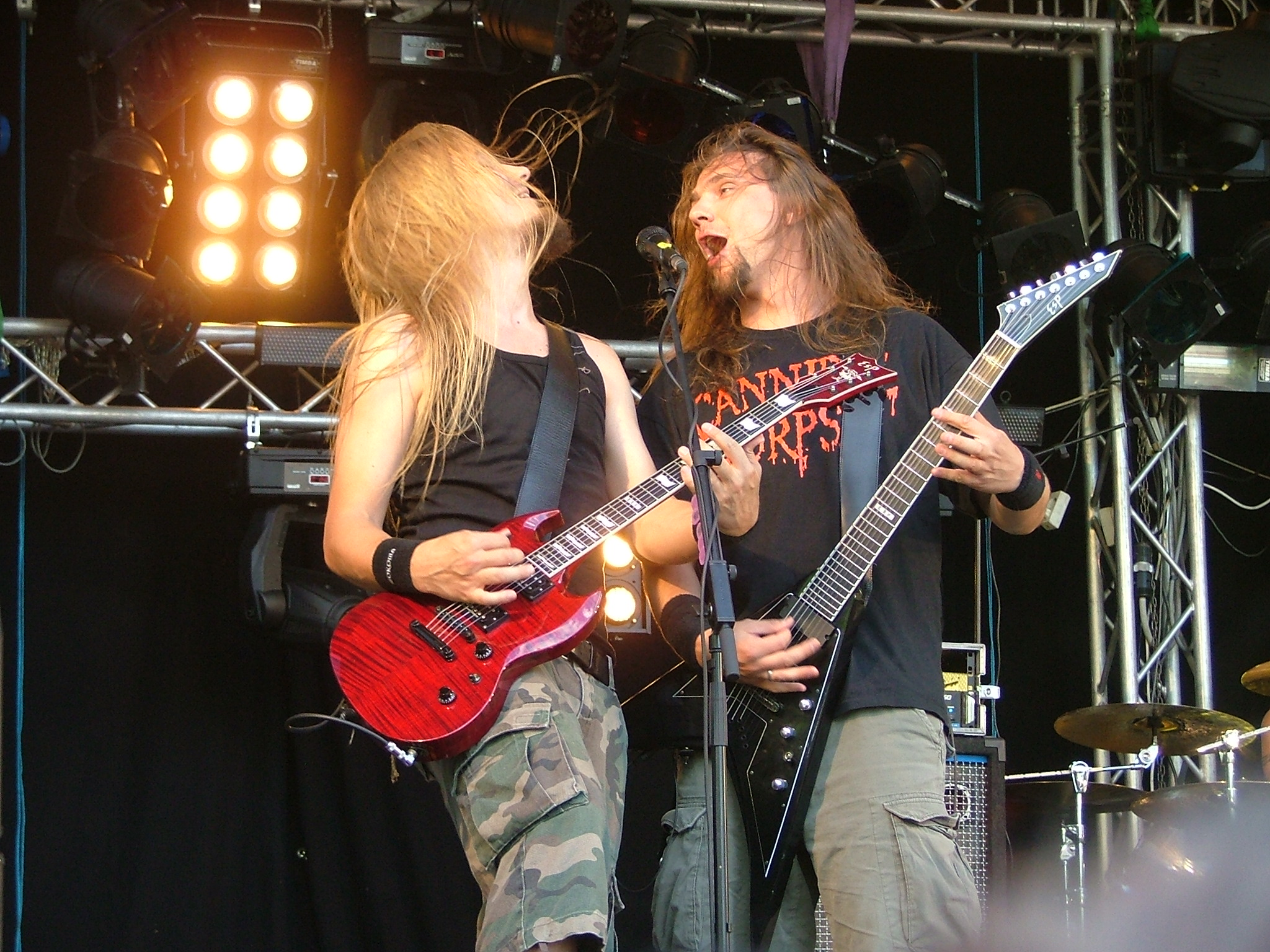 Finnish thrash metal band Mokoma in Kuopio at Rockcock-musicfestival